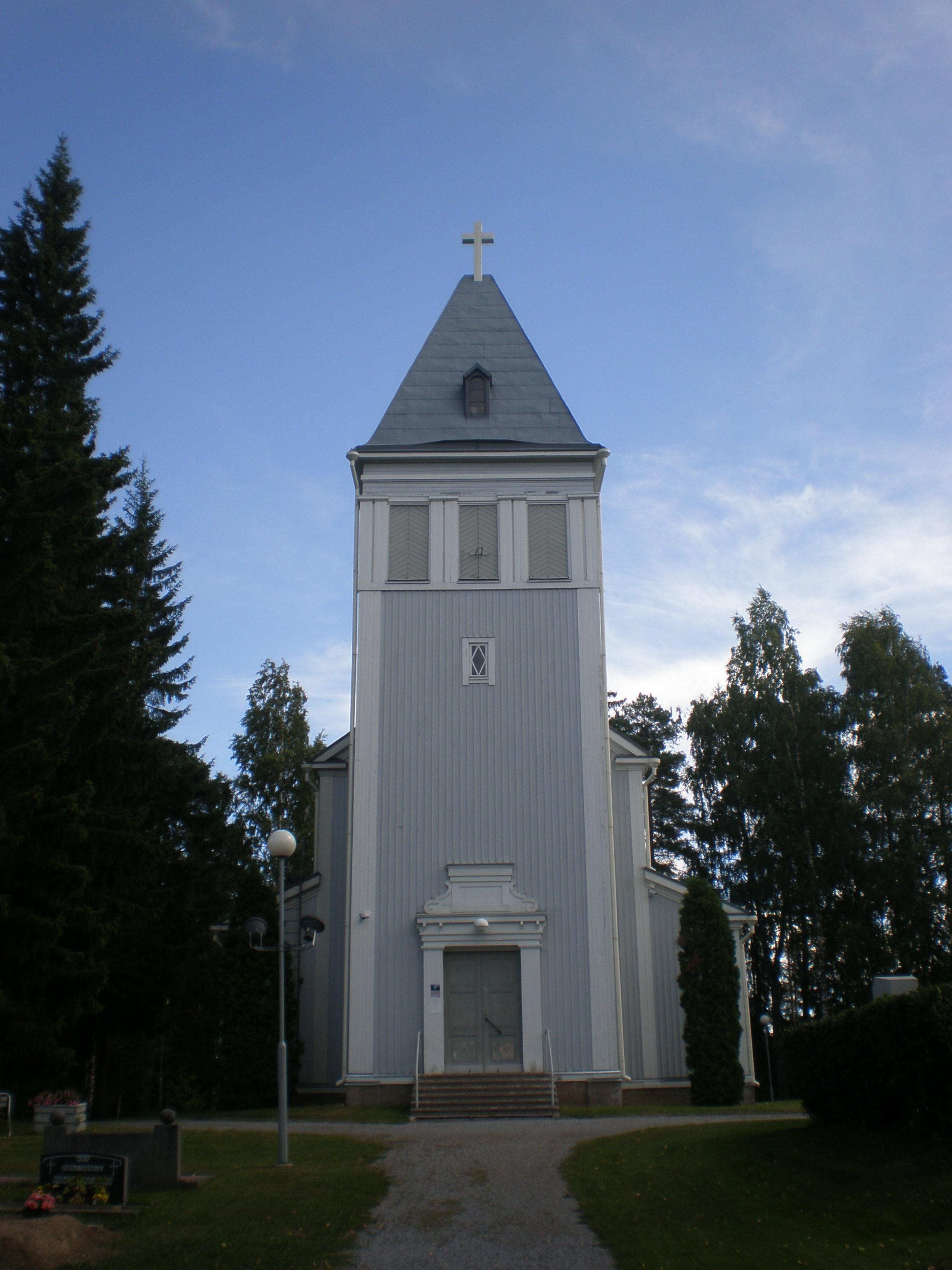 Sammaljoki Church in Sastamala, Finland